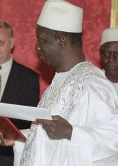 Guinea's President Lansana Conté during a meeting with Vladimir Putin in Moscow.